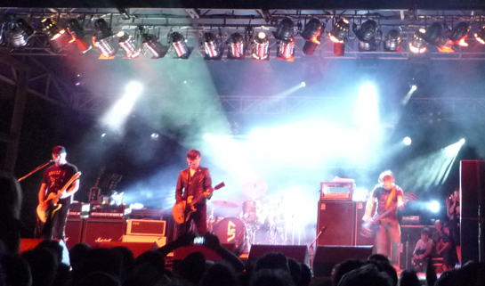 Australian band, Grinspoon, playing at Freshfest at Carrara Stadium, Gold Coast, Queensland, on 17 October 2009